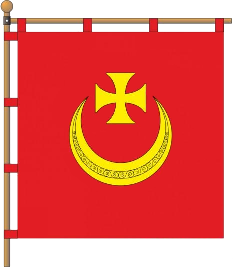 Flag of Nemyriv (Vinitsa region, Ukraine)